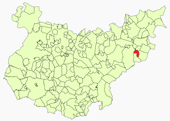 Peñalsordo